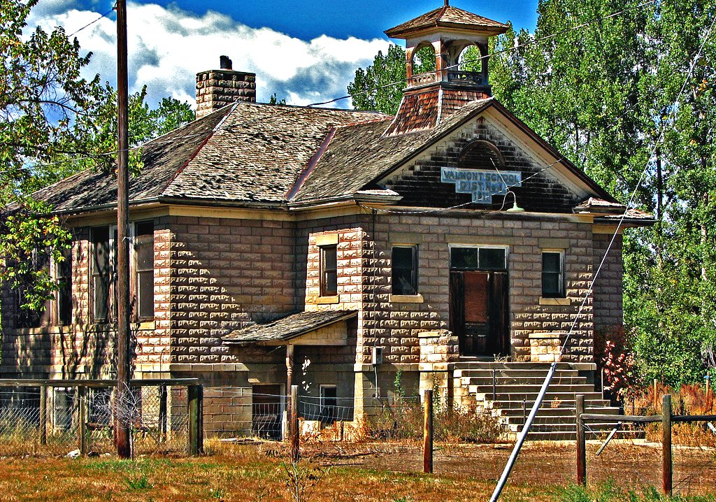 Valmont CO School - 1911. A century-old schoolhouse that I saw in Boulder County, Colorado. It appears to be no longer used, but the exterior is in good condition. If built today, there would be railings on the steps.